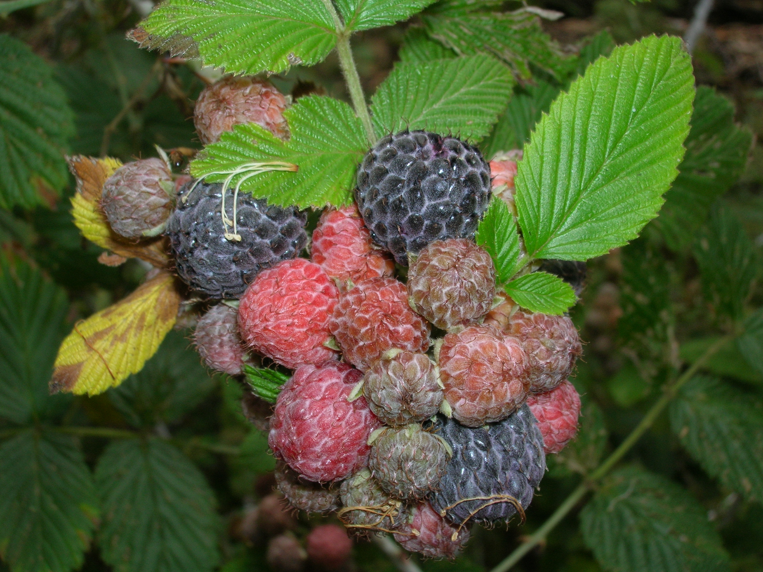 Rubus niveus f. a (fruit). Location: Maui, Haleakala Ranch